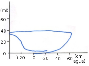 Grafica V/P en primera respiración